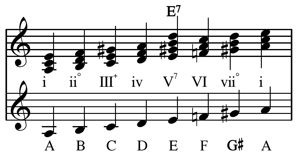 Harmonic minor scale in A-minor